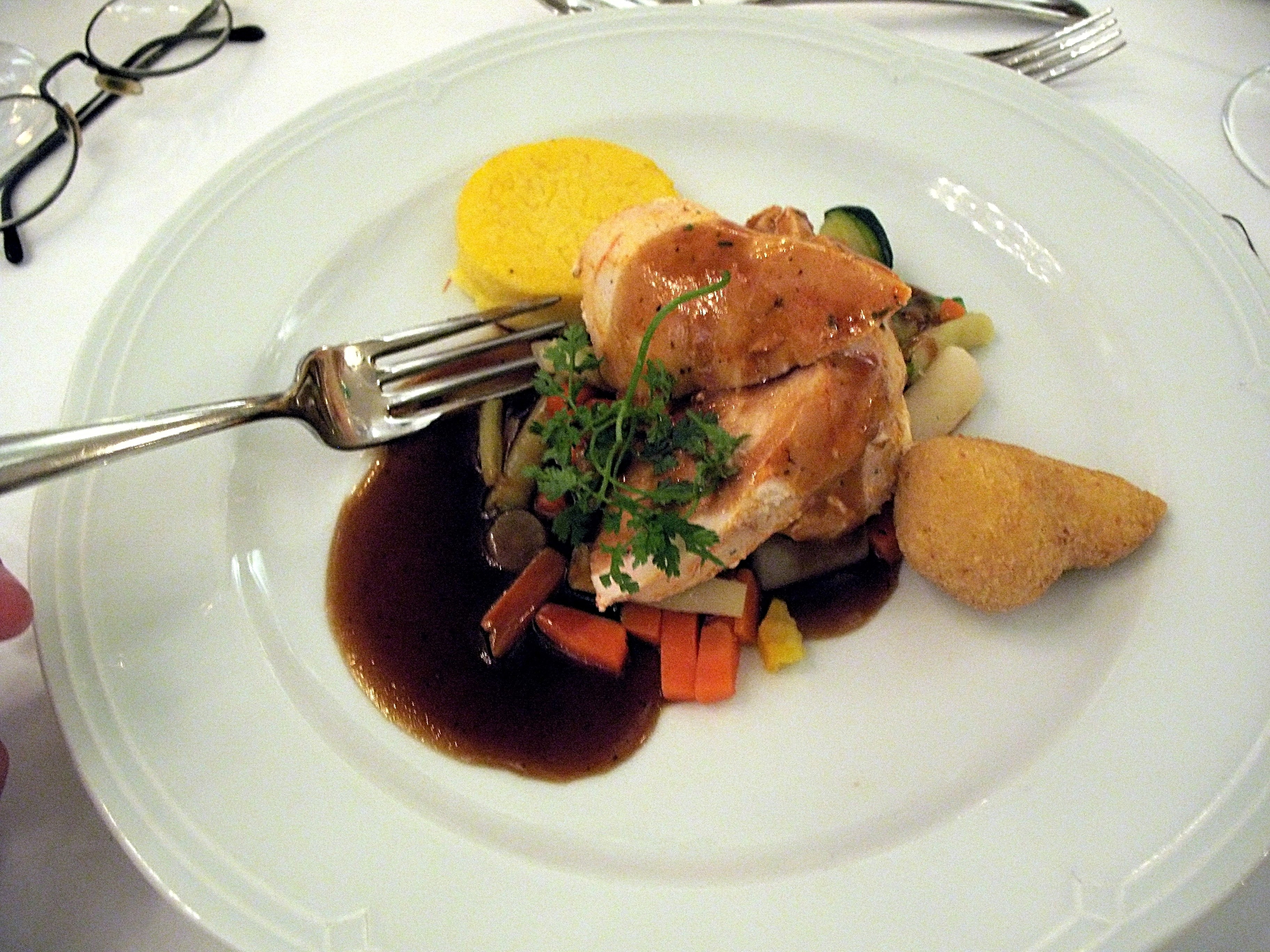 Roasted capon breast with polenta and truffle-sage-cream sauce, potatoes, and vegetables from Father Prior's Garden, St. Peter's Abbey Cellar, Salzburg, Austria